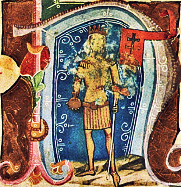 Andrew II of Hungary